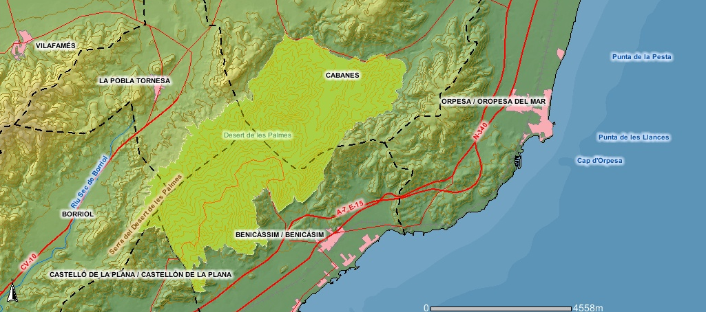 Map of the national Natural Park del Desierto de las Palmas, in the Desert de les Palmes mountains of Castellón Province, in the Land of Valencia—Valencian Community, eastern Spain.